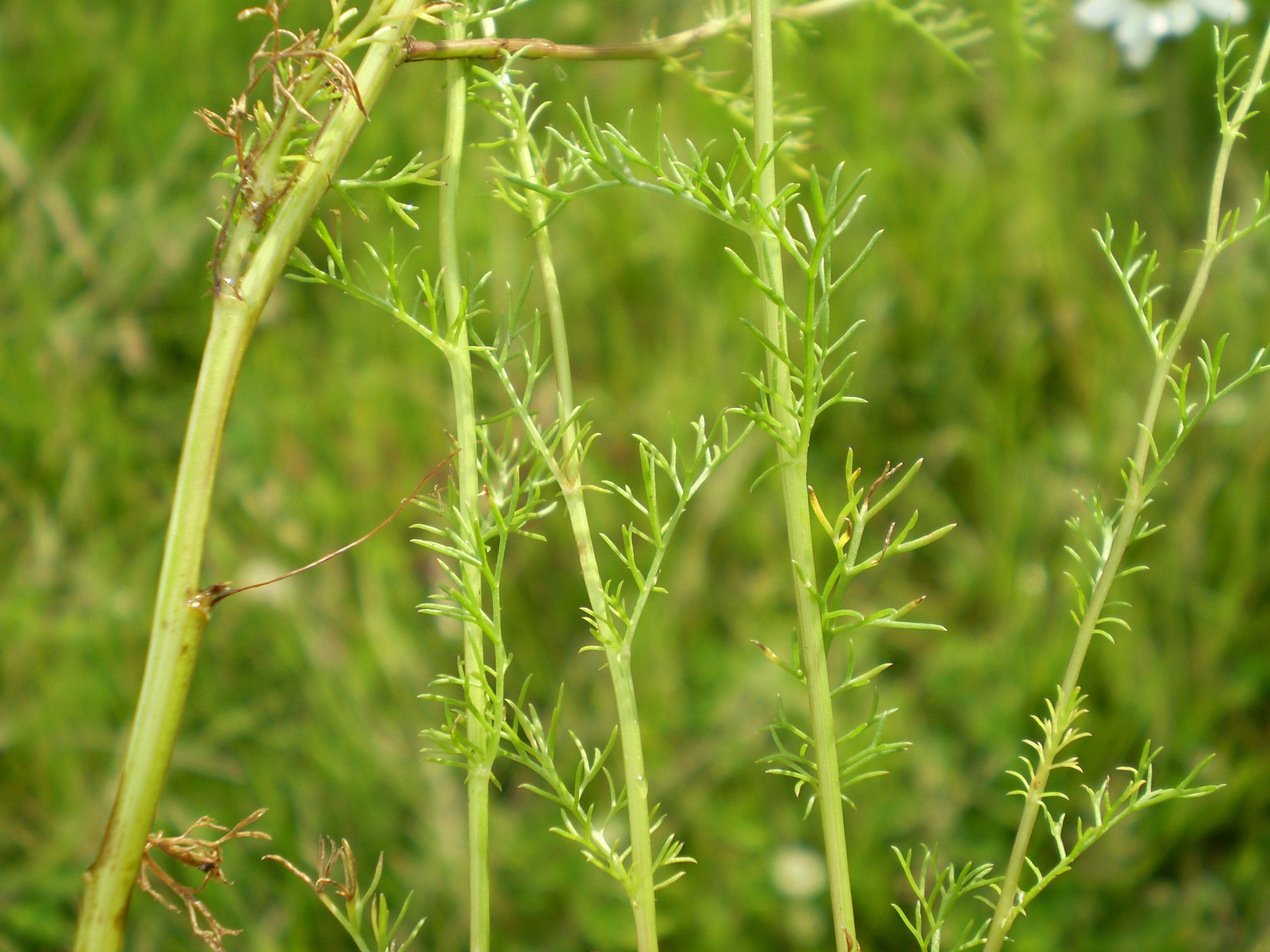 Chamomile, Matricaria recutita